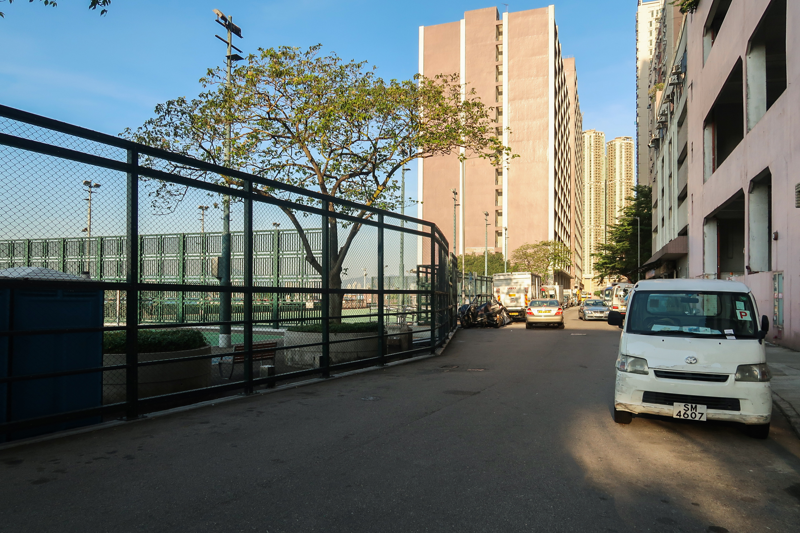 Sai Ning Street